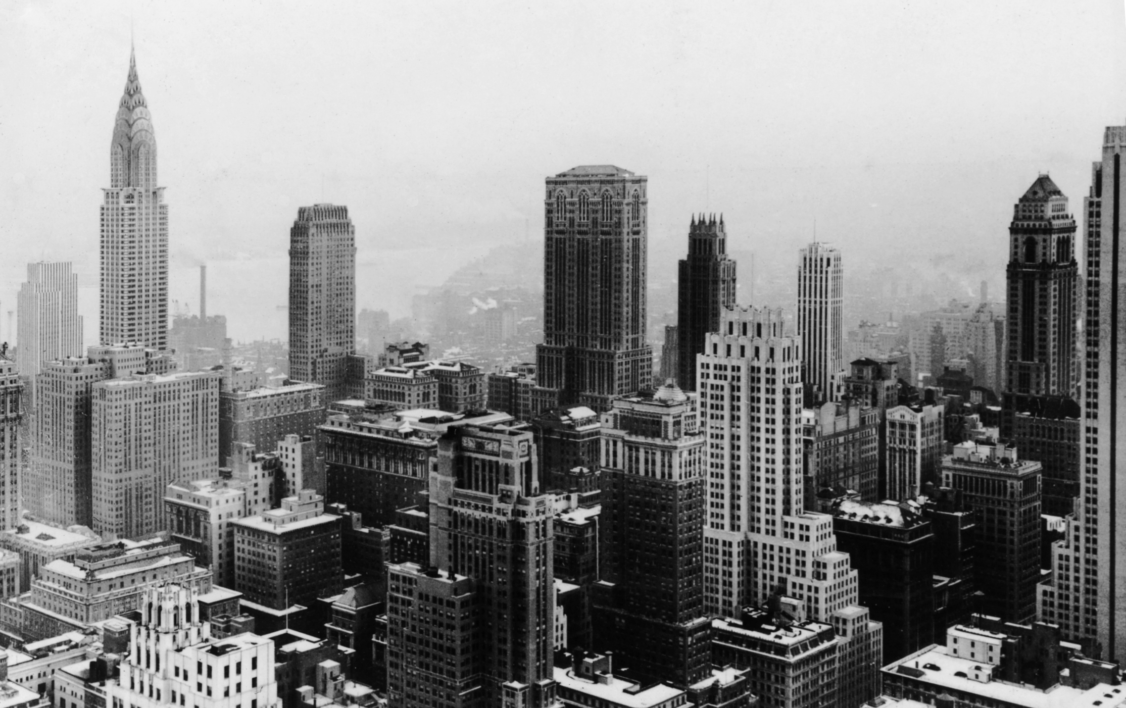 Midtown, New York City, as viewed from Rockefeller Center. Lincoln Building (42nd Street, Manhattan), center. Source: ( Title: [View of New York City facing south from Wilbur A. Sawyer's Rockefeller Foundation office] Description: In 1935 Dr. Sawyer was appointed director of the RF International Health Division. He discovered that his office in the newly built RCA Building at Rockefeller Center provided fine photo opportunities. Number of Image Pages: 1 (62,196 Bytes) Date: 1936-12 (December 1936) Creator: Sawyer, Wilbur A. Subject: Medical Subject Headings (MeSH): Photography Exhibit Category: The Yellow Fever Laboratory: Rockefeller Foundation, 1928-1937 Relation: Metadata Record [View of New York City facing north from Wilbur A. Sawyer's Rockefeller Foundation office] (December 1936) Box Number: 8 Unique Identifier: LWBBHV Document Type: Photographic prints Format: image/jpeg image/tif Physical Condition: Good Series: Photographs and Motion Pictures, 1914-1951 Folder: Oversize Box Metadata Last Modified Date: 2004-06-27